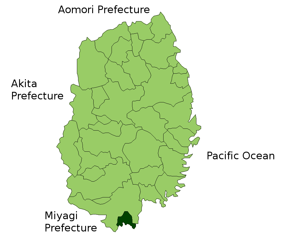 Location Map of Fujisawa in Iwate Prefecture, Japan